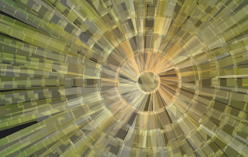 "Octopod" Used as an example of algorithmic art in the article Algorithmic art Software: Structure Synth V 0.4